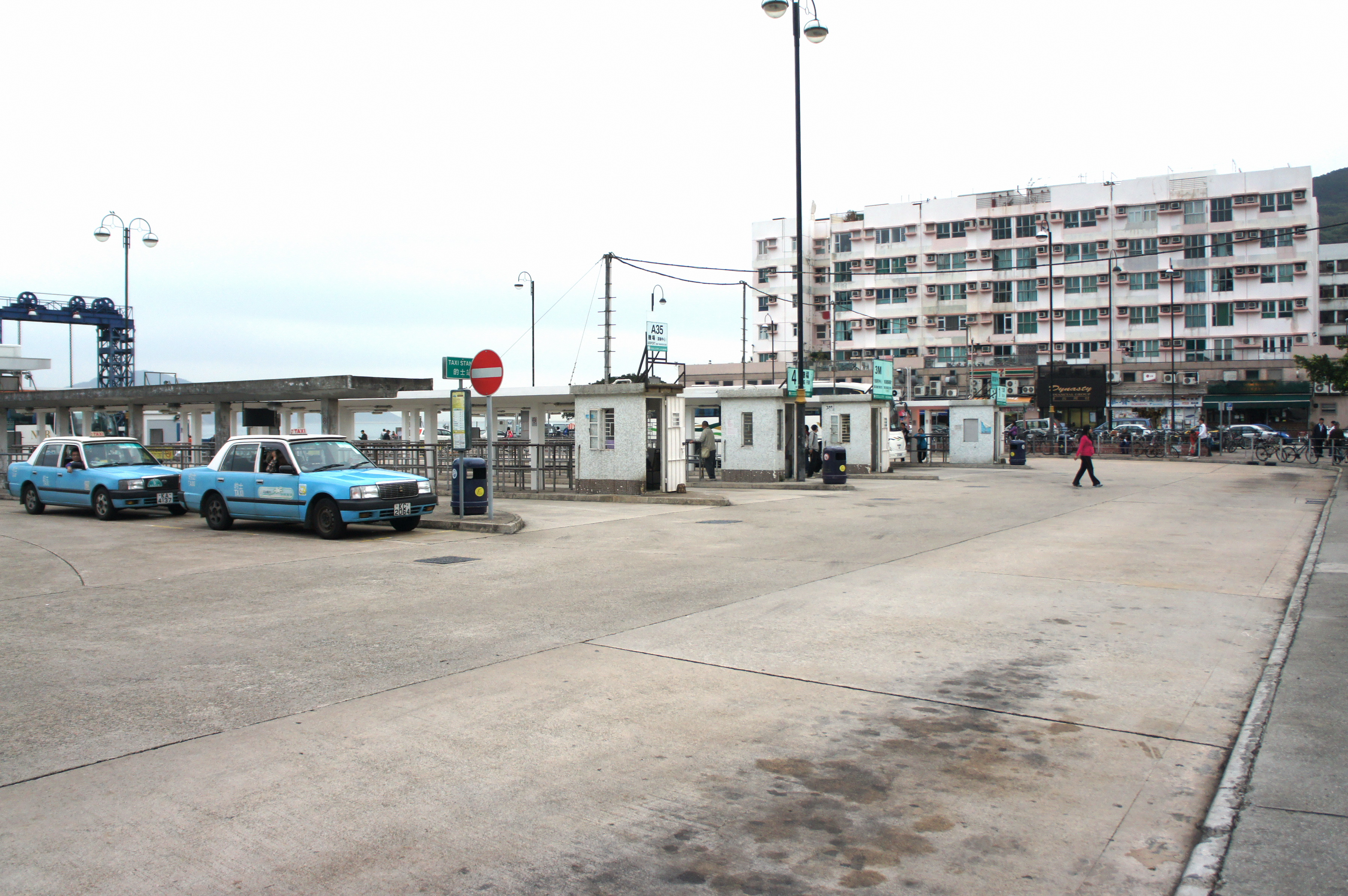 Mui Wo Bus Terminus (Mui Wo Public Transport Interchange, Lantau Island), Lantau Island, Hong Kong.